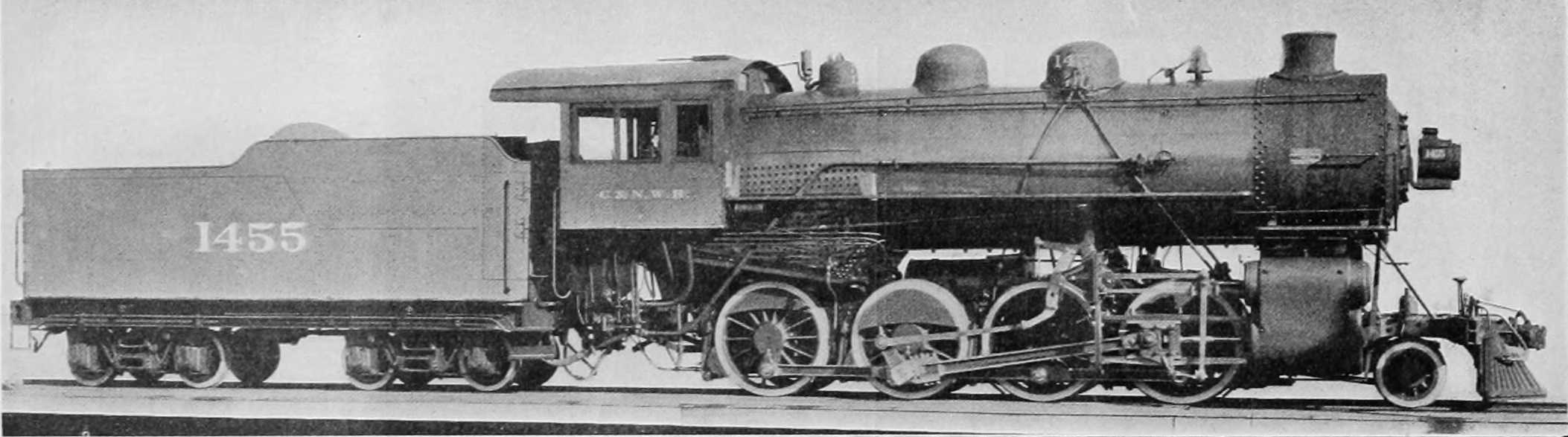 Chicago and North Western Railway 1455, class Z 2-8-0, built by Alco in 1909